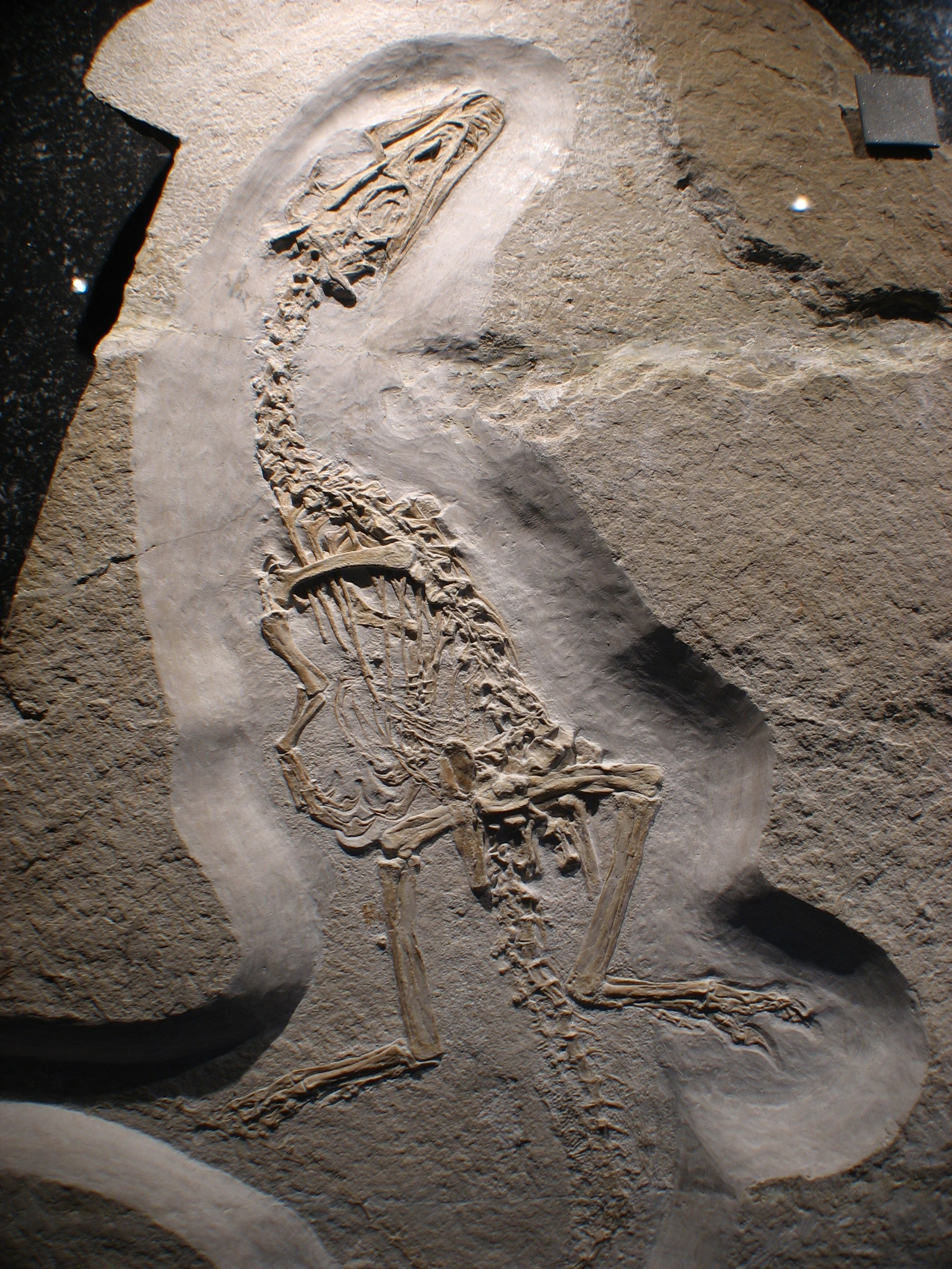 Juravenator starki